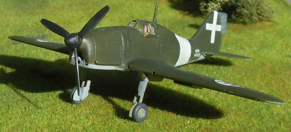 Model of a Reggiane Re.2001 Delta. More pics of the same are avialbale on